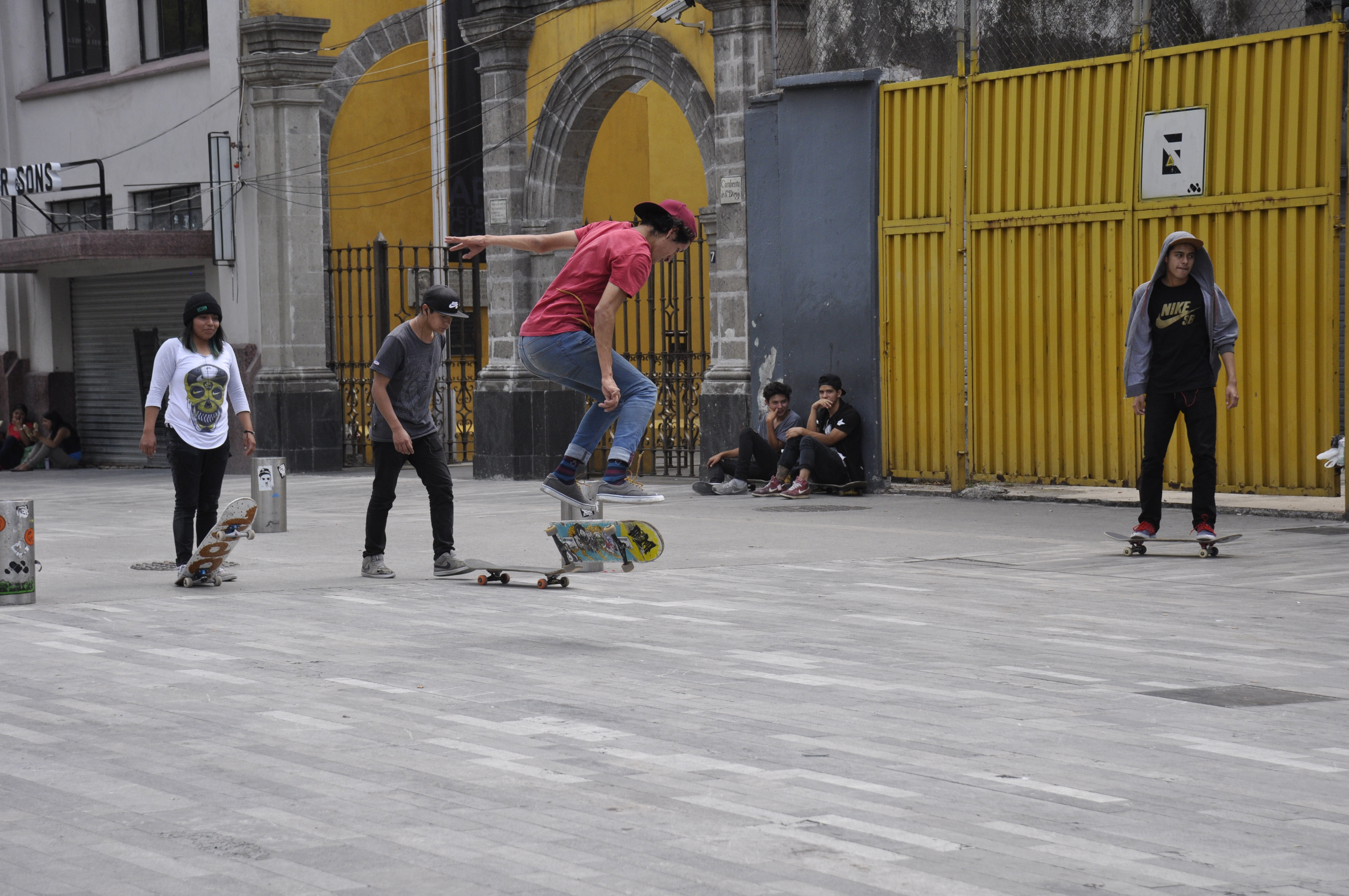 Skateboarding at Calle Dr Mora, just west of Alameda Central in Mexico City: Flip trick.